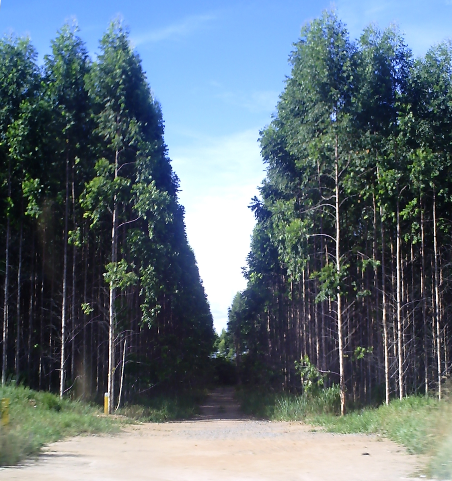 Eucalyptus forest of Aracruz Celulose in Aracruz, Brazil.